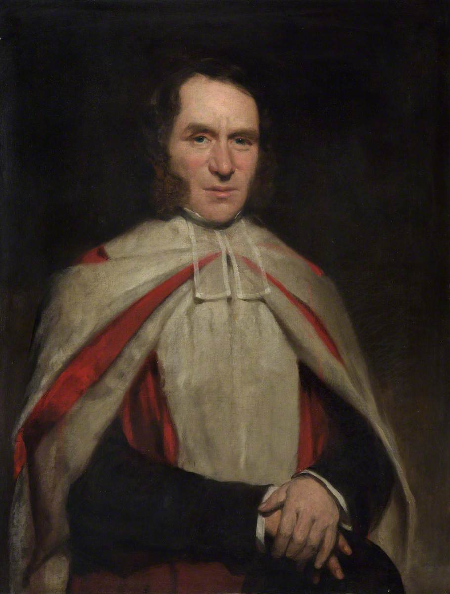 Edwin Guest (1800-1880), Master of Gonville & Caius College, Cambridge